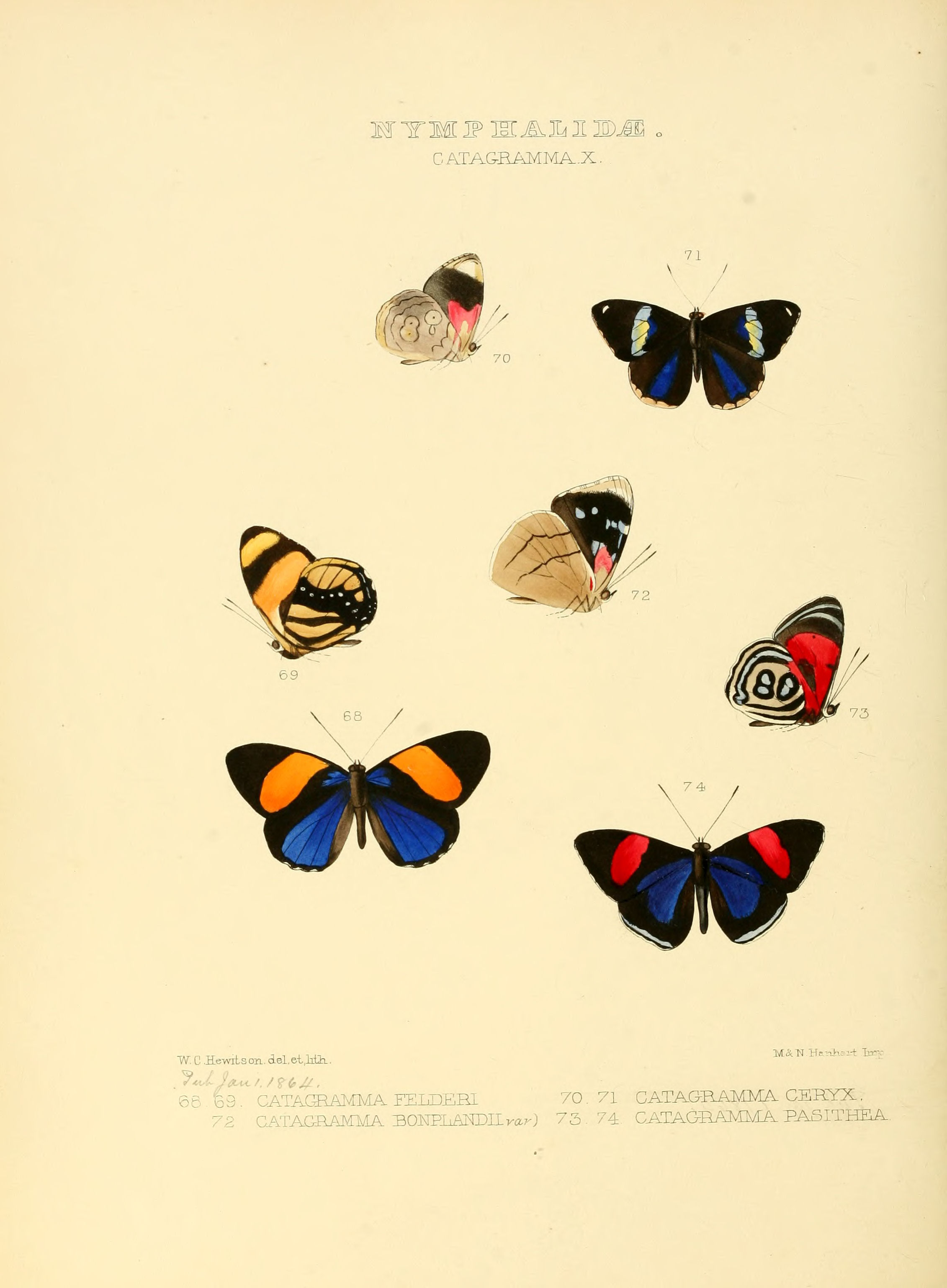 Plate: Catagramma X Catagramma felderi. Figs. 68, 69. Accepted as Callicore felderi (Hewitson, 1864). Catagramma ceryx. Figs. 70, 71. Accepted as Diaethria ceryx (Hewitson, 1864). Catagramma bonplandii var. Fig. 72. Accepted as Perisama bomplandii (Guérin-Méneville, 1844). Catagramma pasithea. Figs. 73, 74. Accepted as Catacore kolyma (Hewitson, 1851).